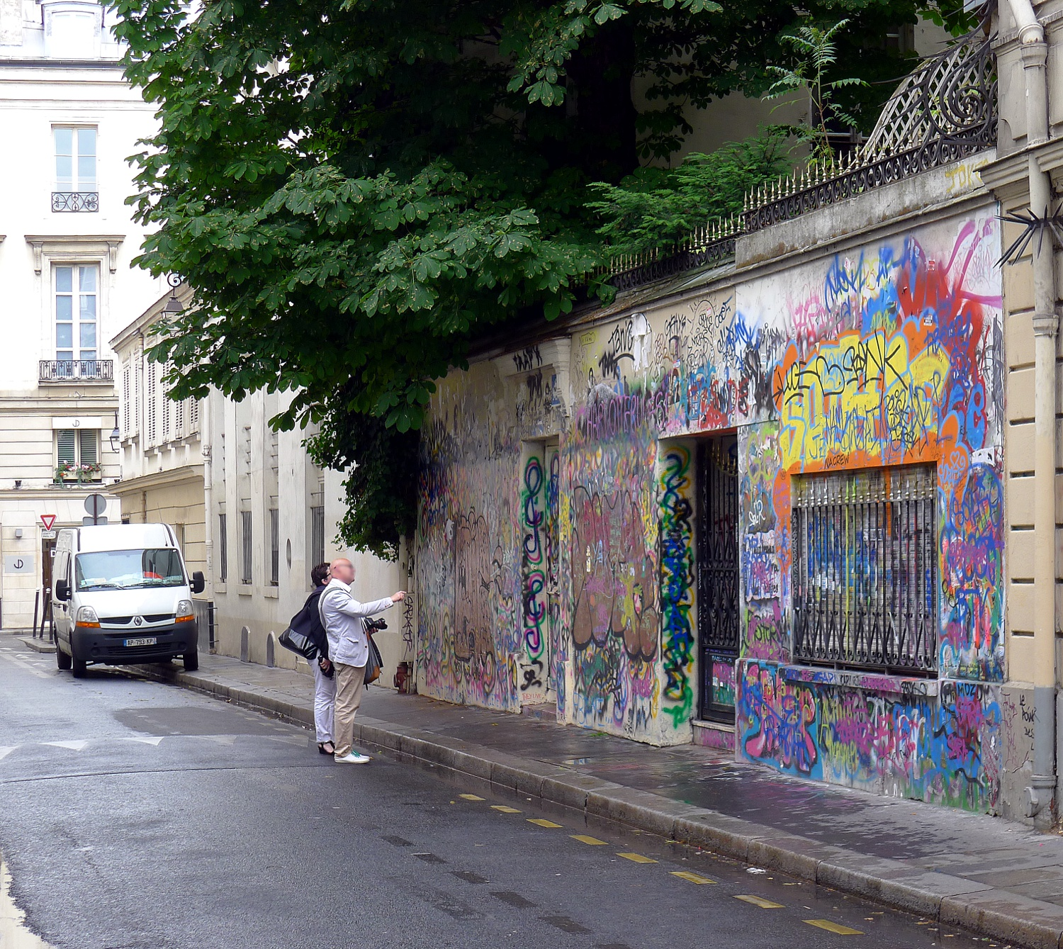 Verneuil street - Paris